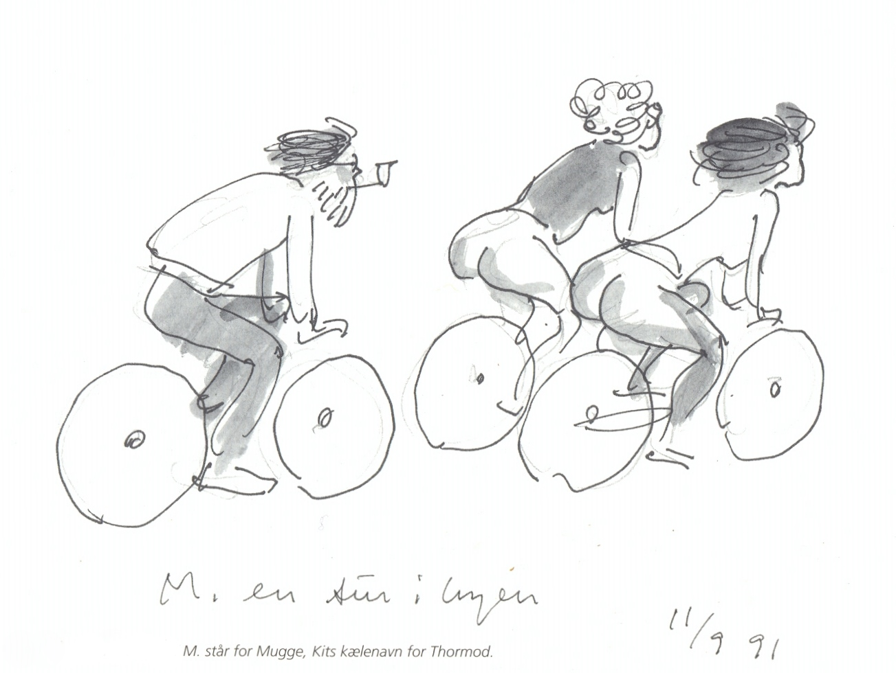 Tegning "Cykel og piger" af Thormod Kidde